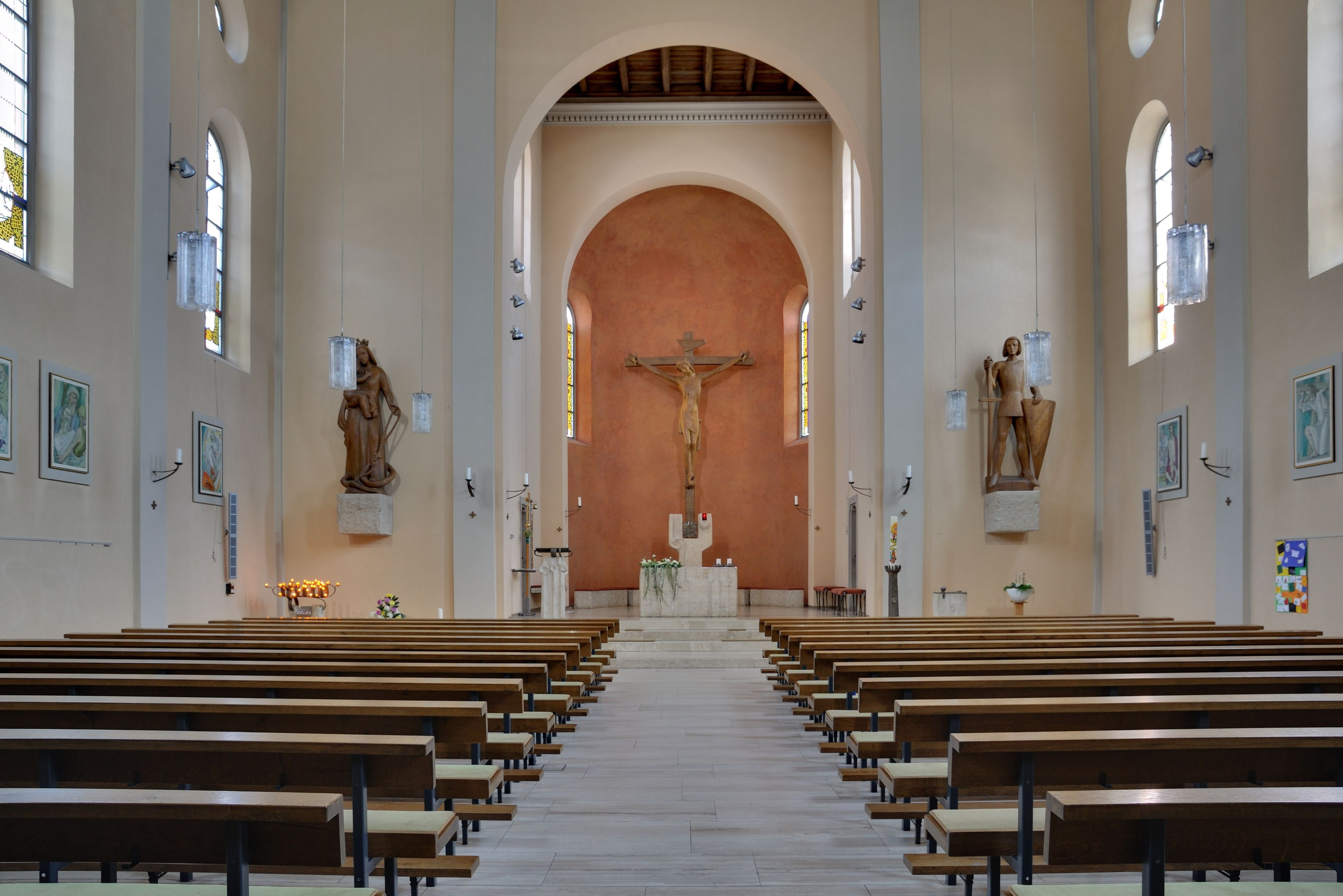 Schopfheim: Catholic Church